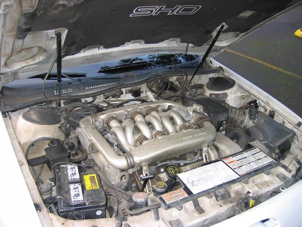 The engine bay of a 1991 Ford Taurus SHO